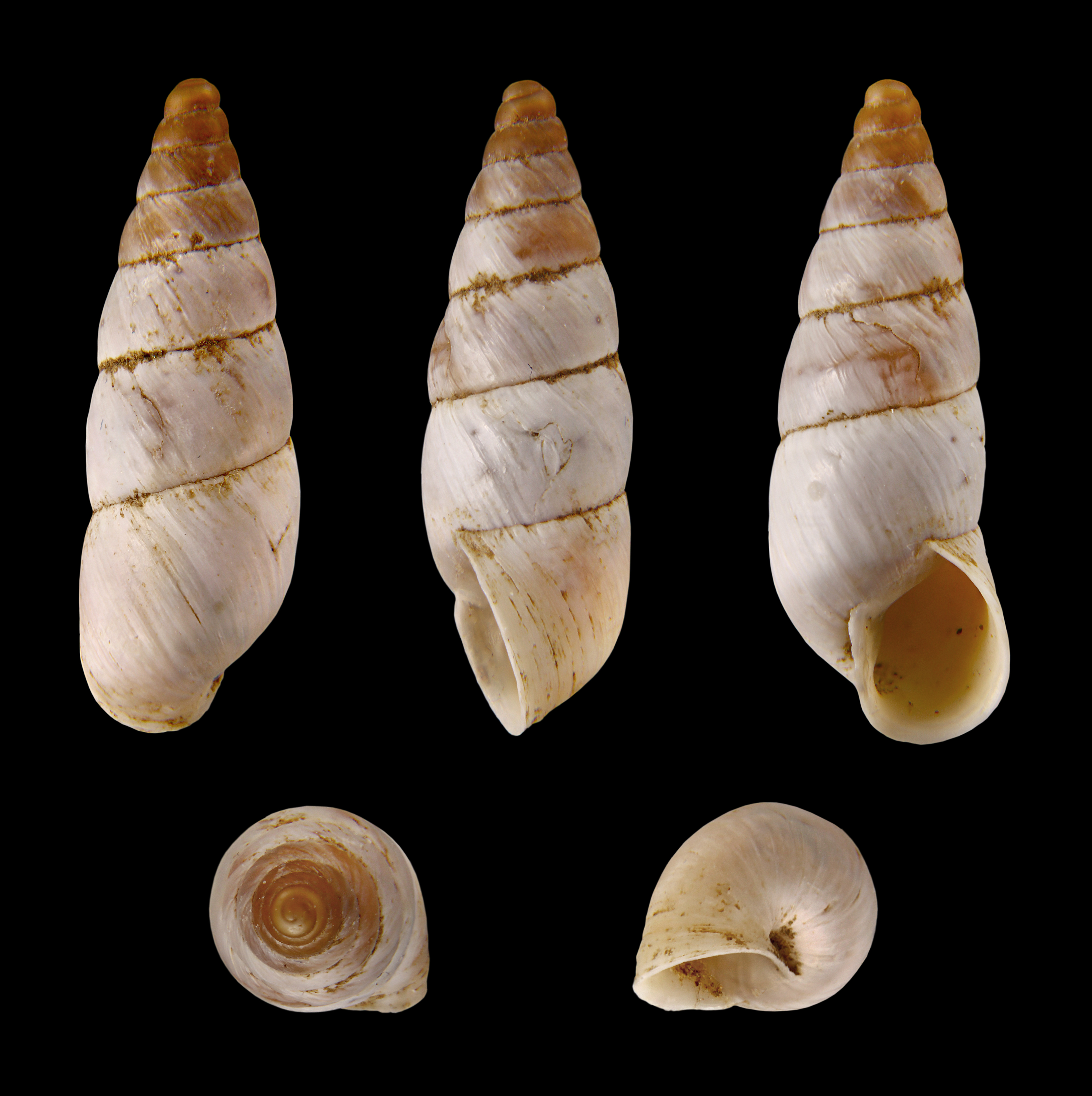 Length 1.5 cm; Originating from Palio Pyli, Kos, Greece; Shell of own collection, therefore not geocoded. Dorsal, lateral (right side), ventral, back, and front view.